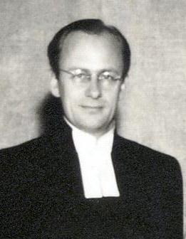 Rev. Matts J. Ridderstedt (1911-1975), Vicar at Falun, as released by image owner FamSACPlace: Stadshotellet, Hedemora, Sweden